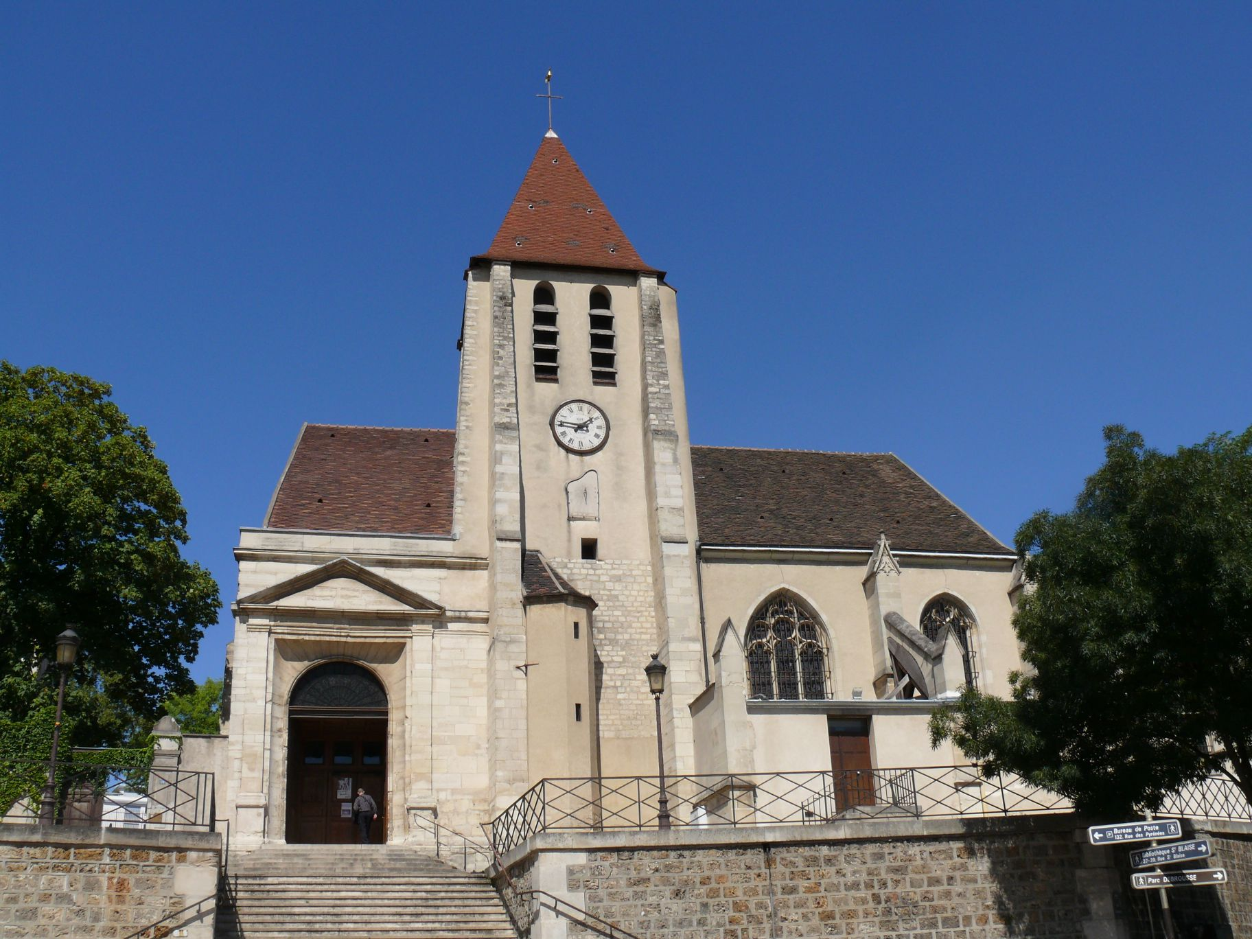 Saint-Germain-de-Charonne's church, in Paris (Paris XX, France)